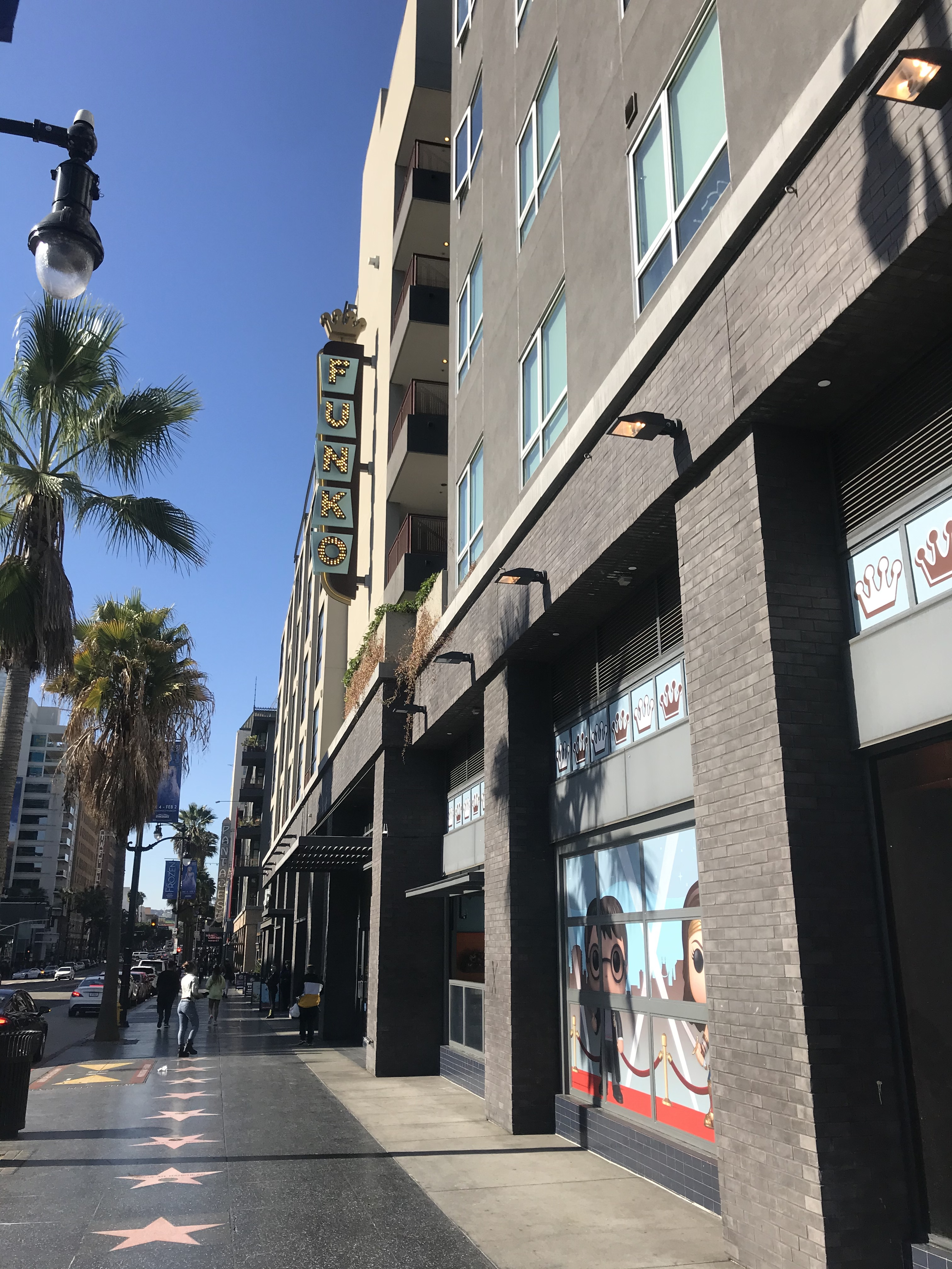 Funko: Hollywood, Funko's second store located along Hollywood Boulevard near Capital Records. The store is the first one outside of Funko's Headquarters in Everett, Washington and offers exclusives that can only be purchased at this location.